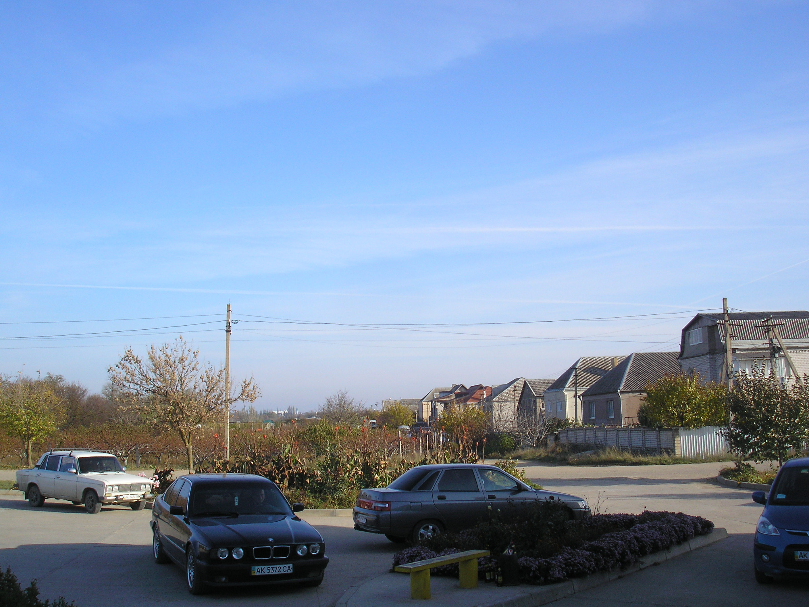 Former village Stavki included in the Rodnikovo, Simferopol district, Crimea.